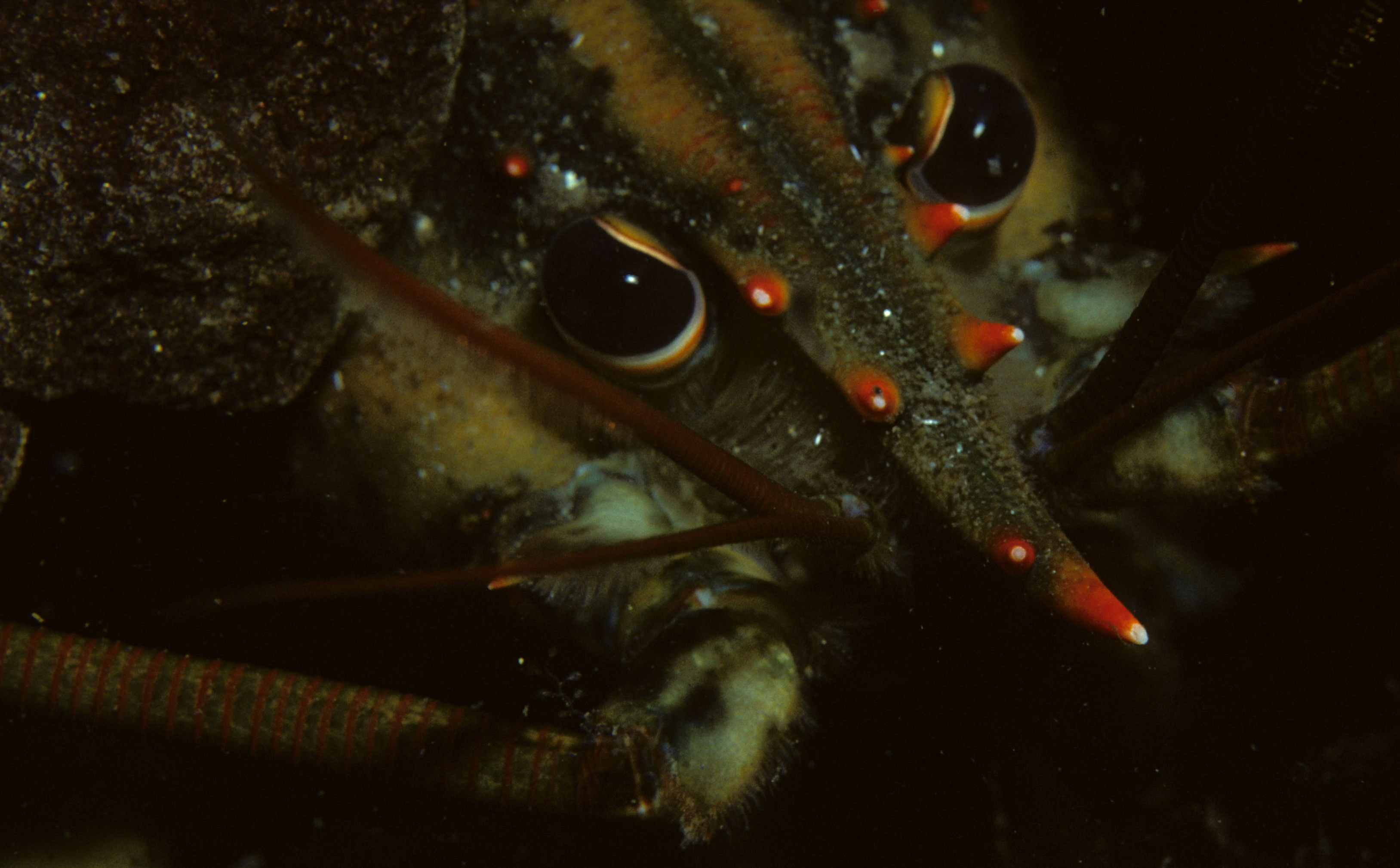 American lobster, Homarus americanus